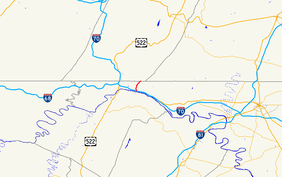 Map of Maryland Route 615